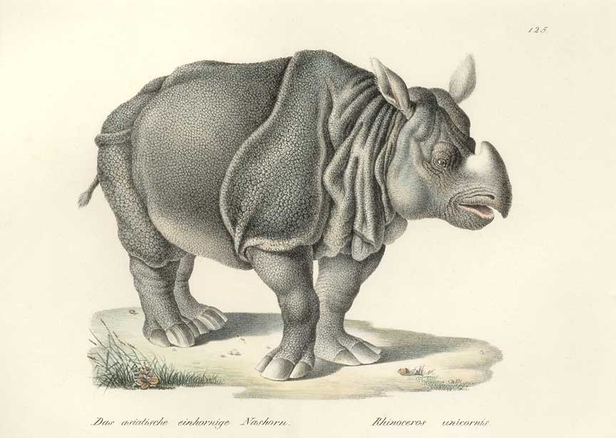 Rhinoceros unicornis, Hand-coloured lithograph, "Naturhistorische Bilder Gallerie aus dem Thierreiche", . 13 by 10 inches (33 by 25.5 cm).